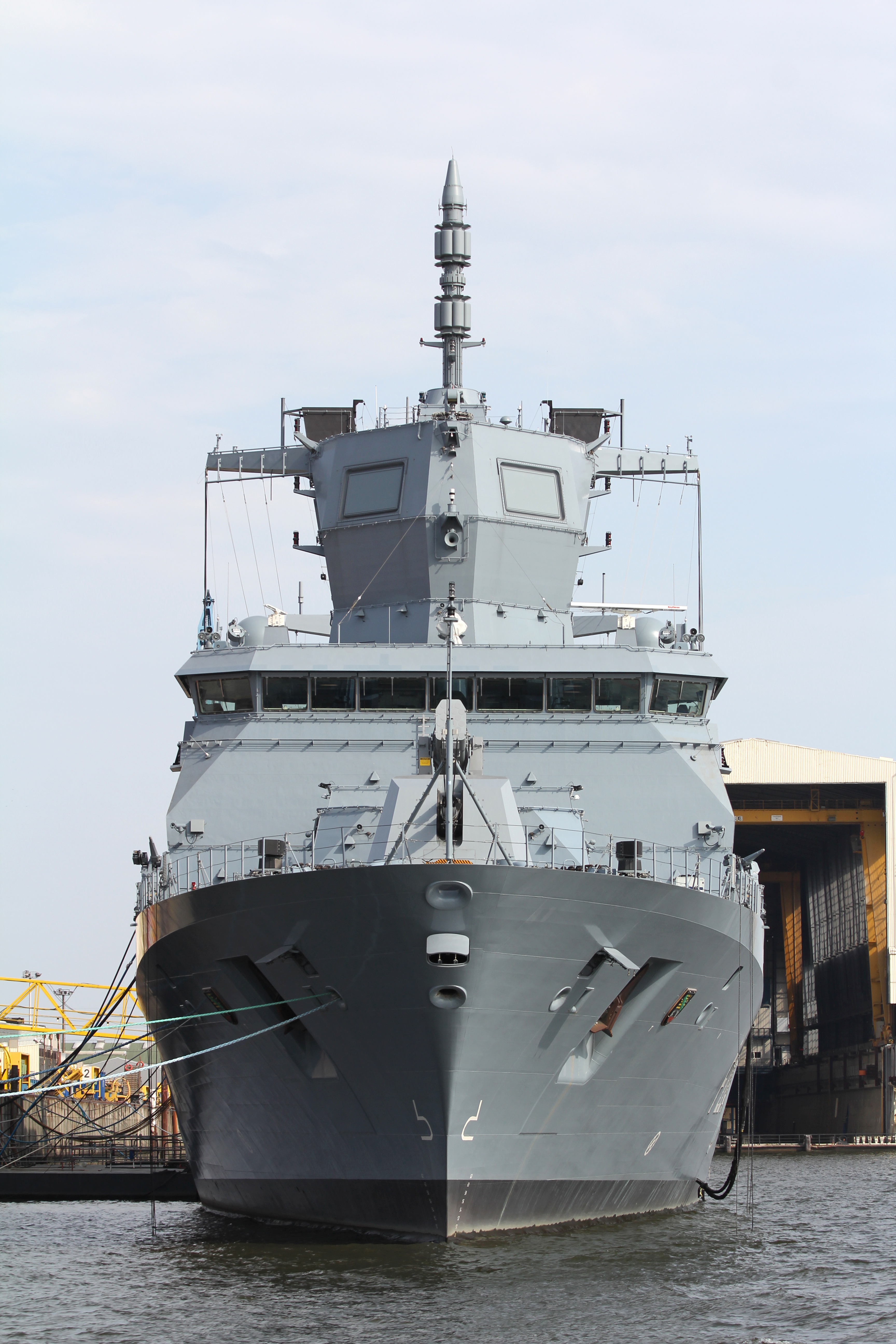 Frigate F224 at Blohm & Voss ship works, Hamburg, Germany.